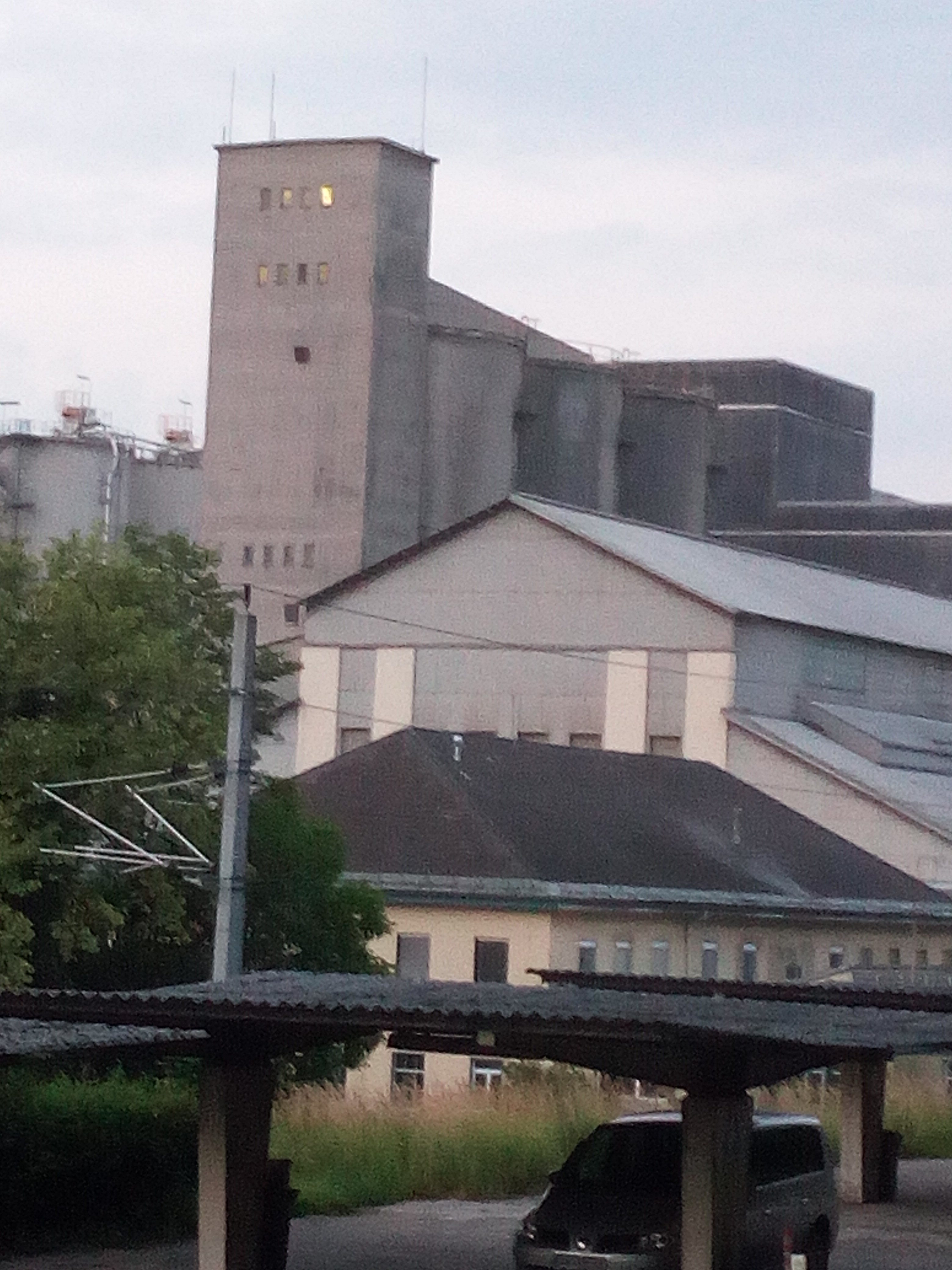 Cement plant in Altmünster, Austria